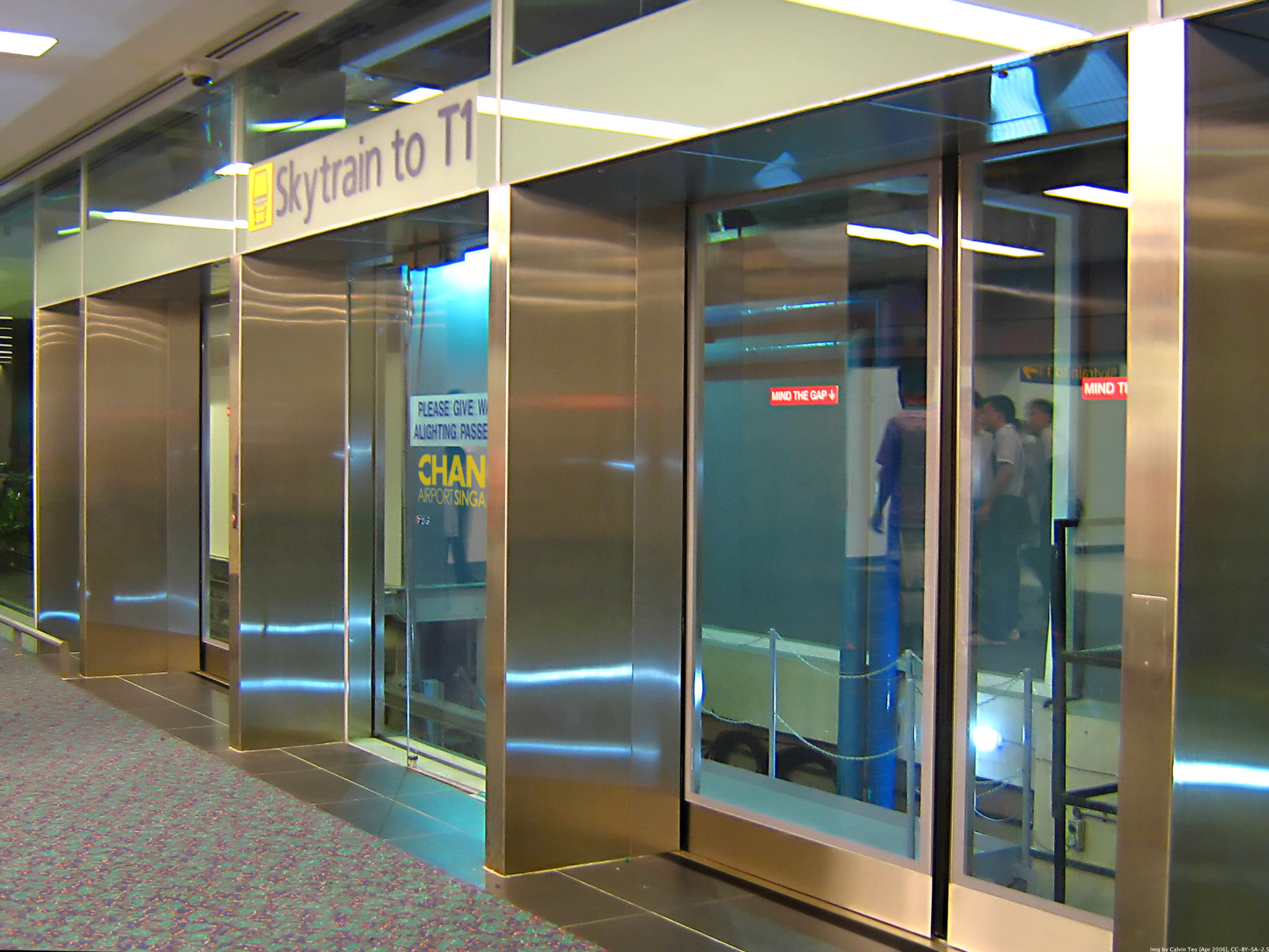 Cubist style Platform Screen Doors Found in the Changi Airport Terminal 2 Skytrain Station Img by Calvin Teo, April 2006